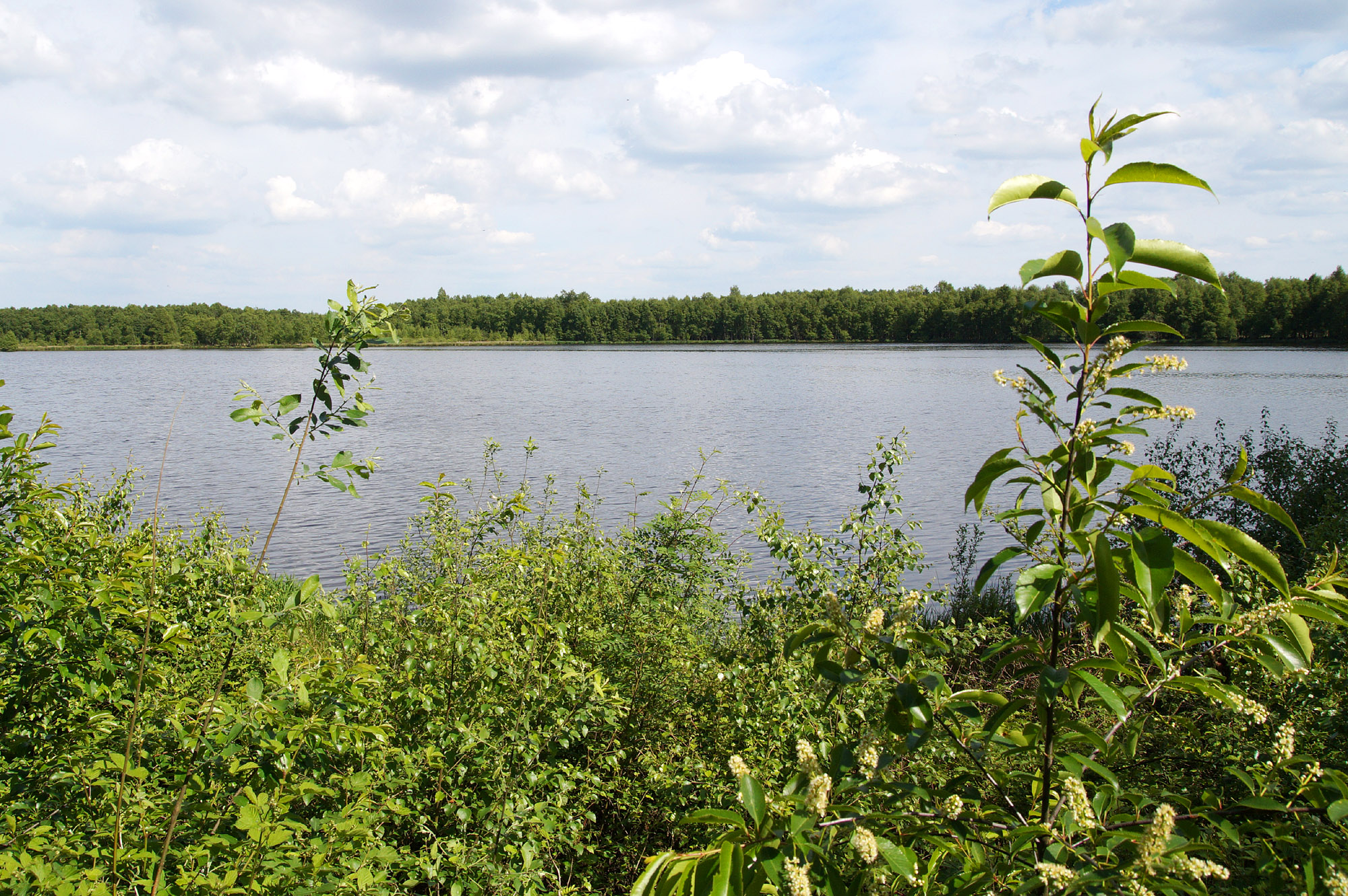 Natural reserve in Germany